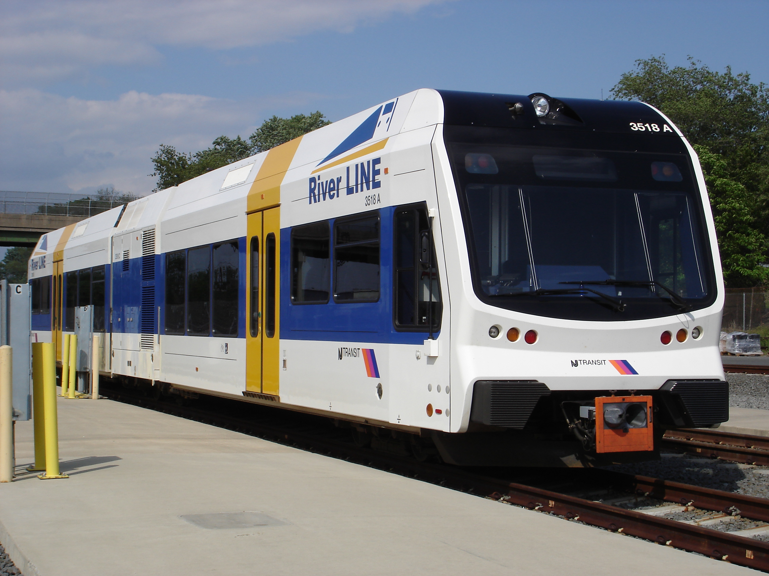 Diesel Multiple Unit train from the New Jersey Transit River Line at 36th Street Station in Camden, New Jersey